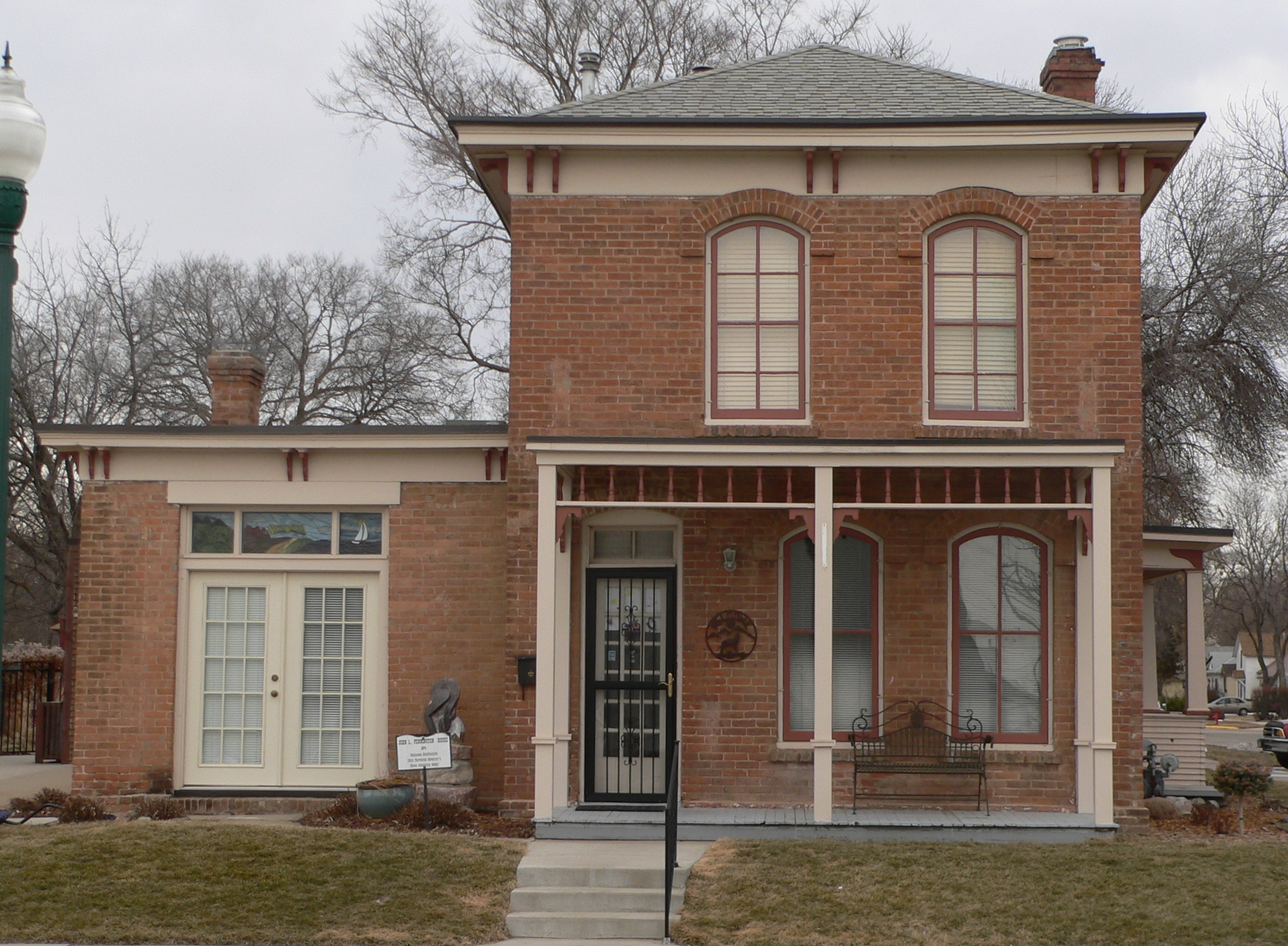 Governor John L. Pennington House, located at 410 E. 3rd Street in Yankton, South Dakota; seen from the south. The 1875 Italianate house is listed in the National Register of Historic Places.